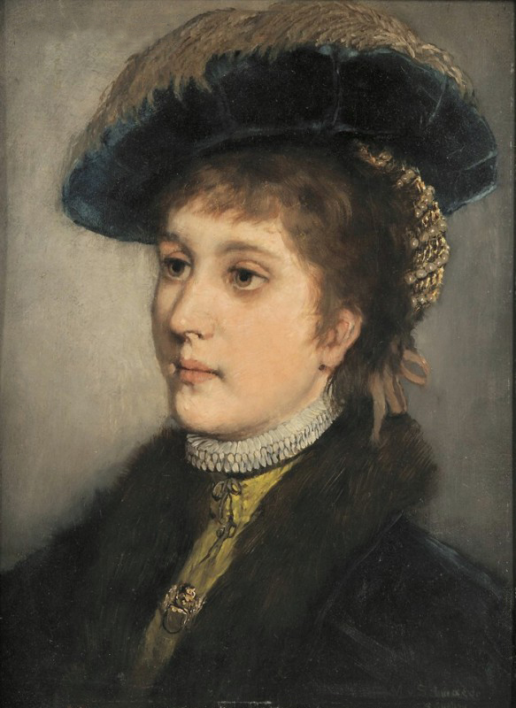 Portrait of Miss Davenport